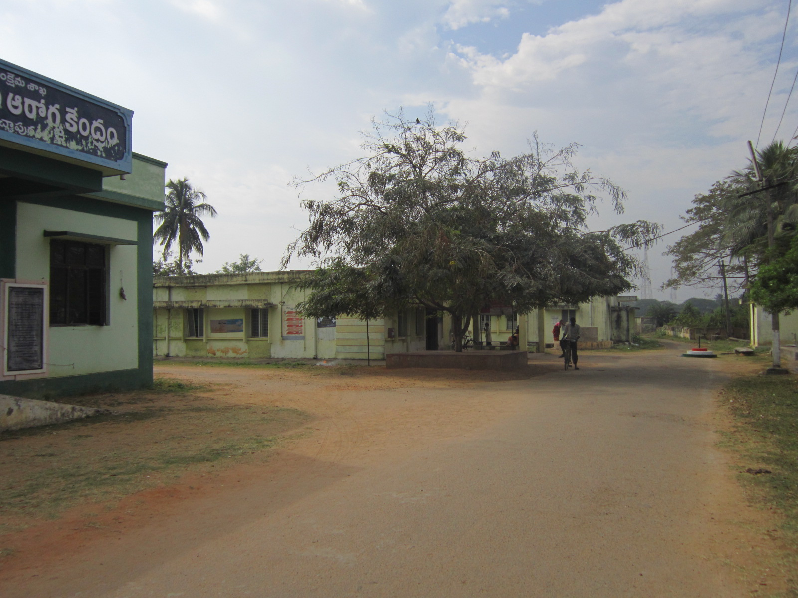 Government hospital at itchapuram,Andhra pradesh,India